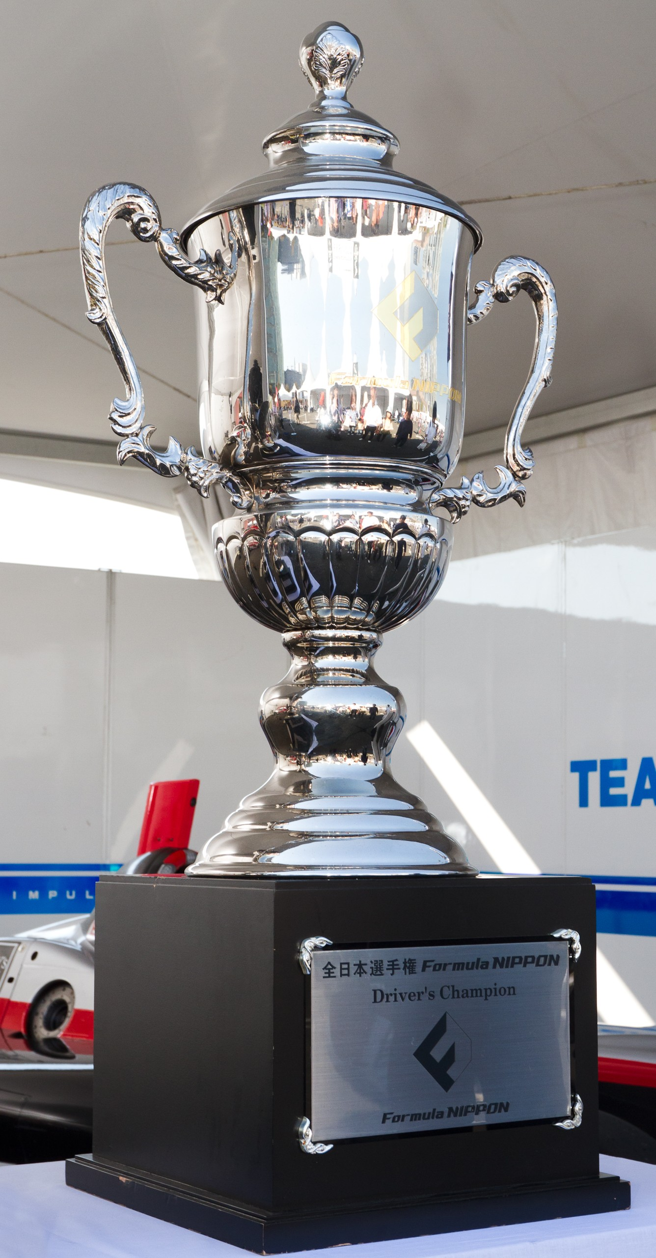 Motorsport Japan 2011: Formula Nippon drivers' champion trophy